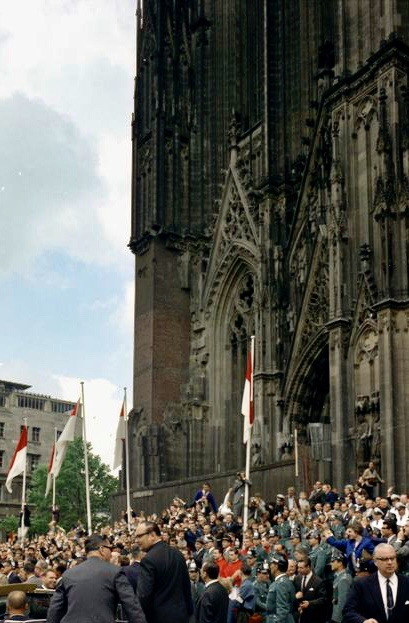 President John F. Kennedy (center left, in background) stands in an open convertible after departing the Cologne Cathedral (Kölner Dom), where he attended mass. Chancellor of West Germany, Konrad Adenauer, stands left of President Kennedy; Special Assistant to the President, Kenneth P. O’Donnell (back to camera), sits in car in foreground. Also pictured: Military Aide to the President, General Chester V. Clifton; West German Ambassador to the United States, Karl Heinrich Knappstein; White House Secret Service agent, Gerald A. “Jerry” Behn. Cologne, West Germany (Federal Republic).